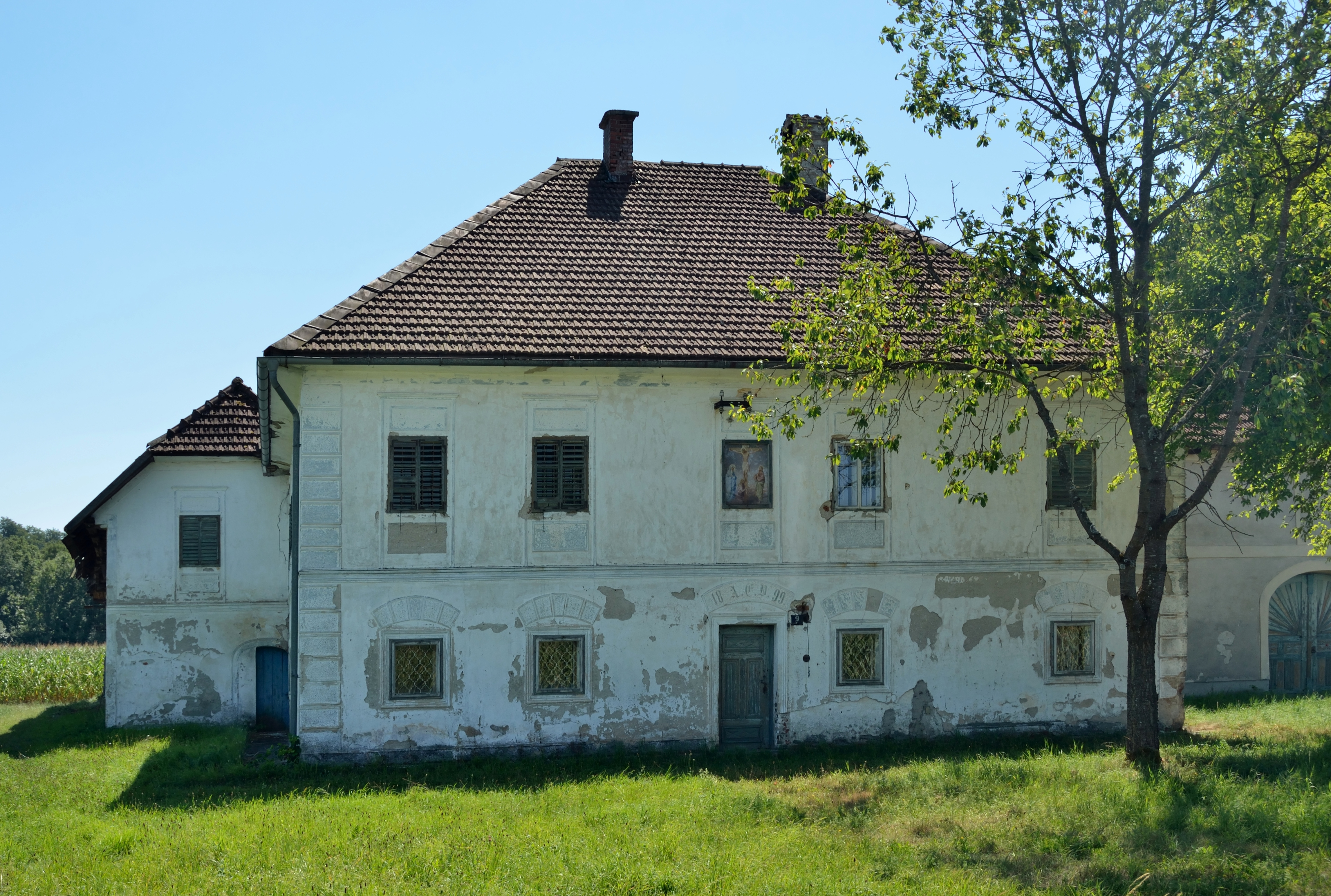 An abandoned farmhouse at Au 9, Redlham, Upper Austria. Built in 1899.